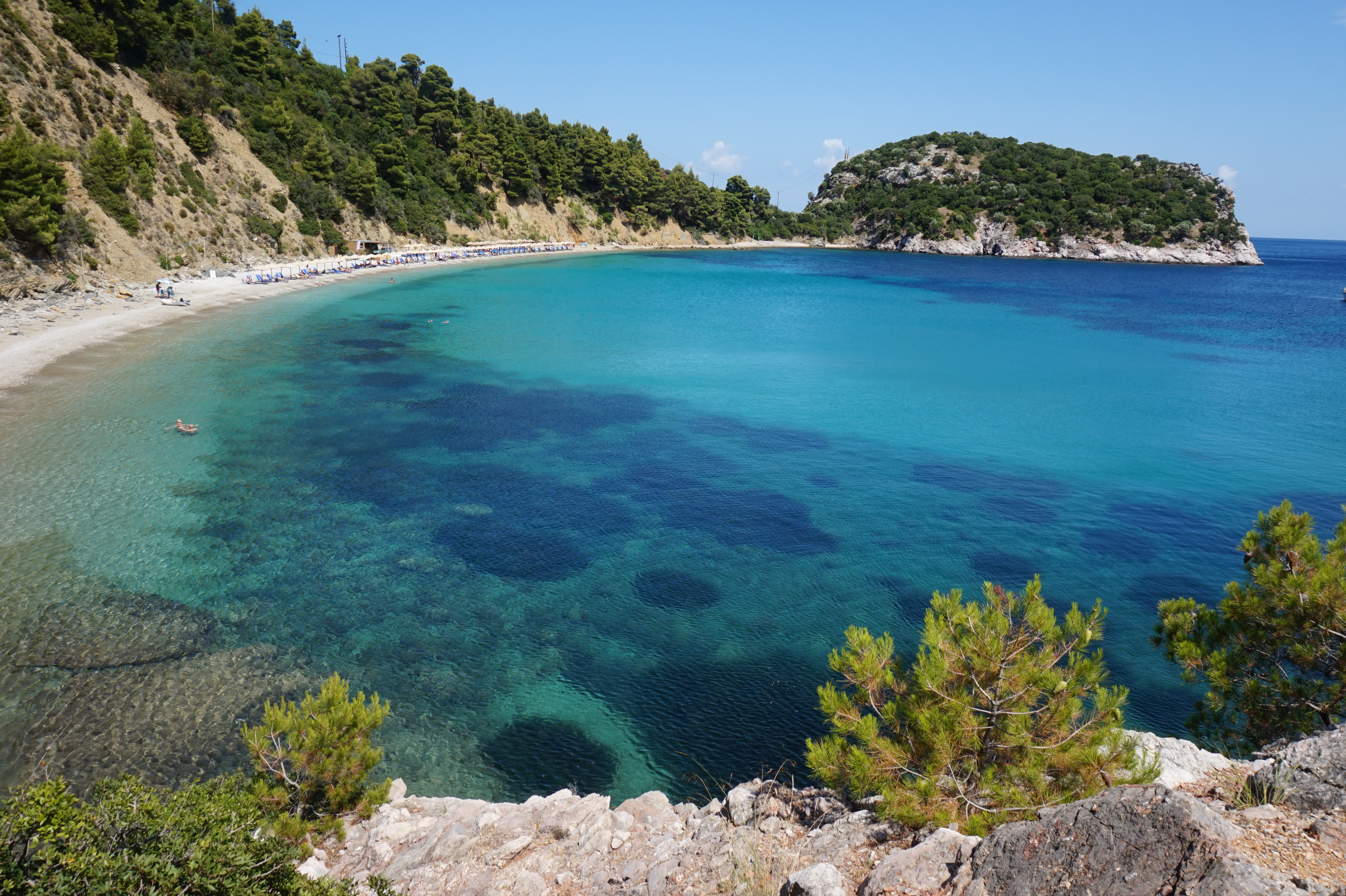 This is a photography of Natura 2000 protected area with ID GR1430004